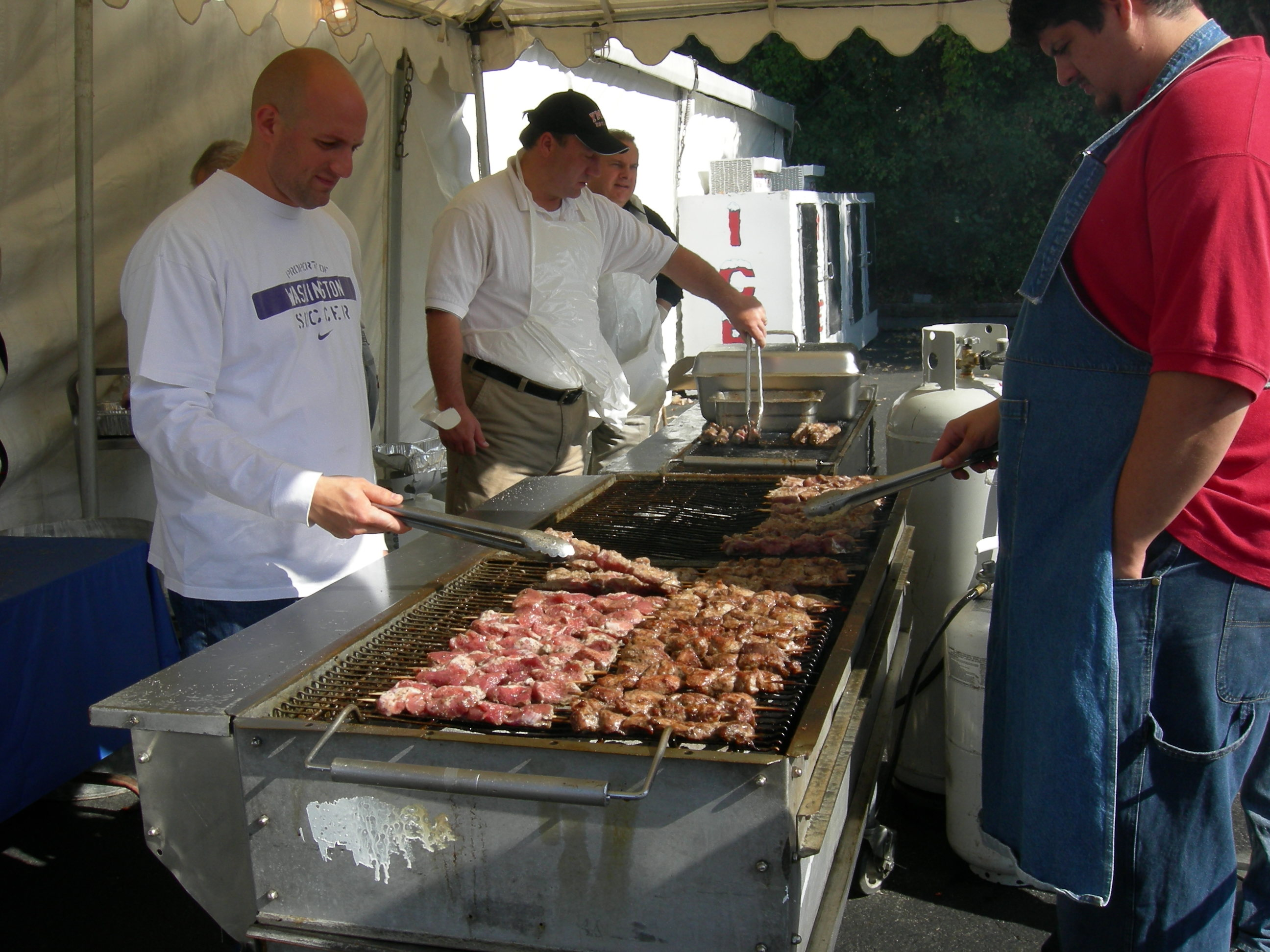 Grilling meat for gyros, St. Demetrios Greek Festival, Seattle, Washington